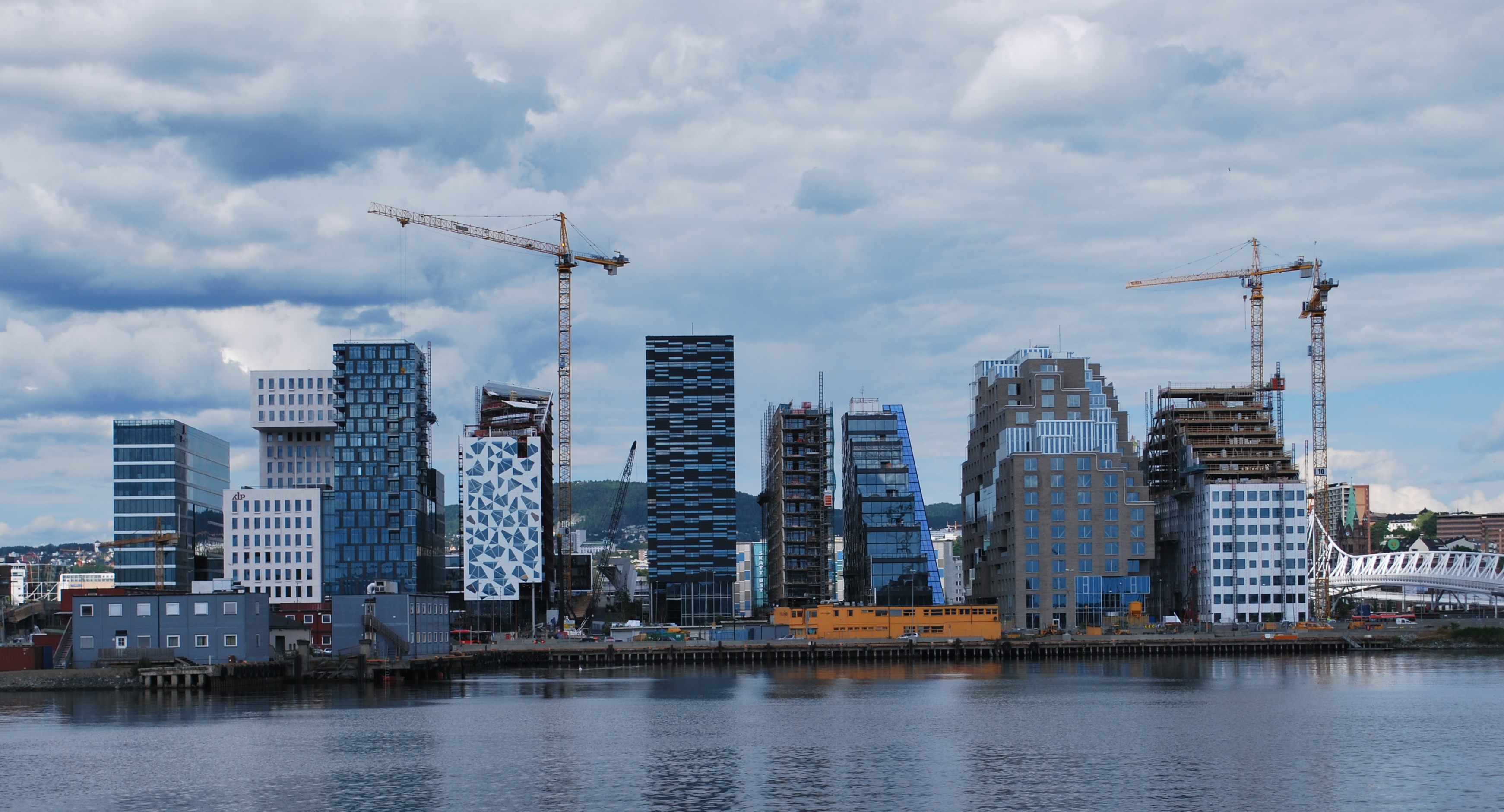 Barcode Project, Bjørvika, Oslo, seen from Sørenga, June 2012